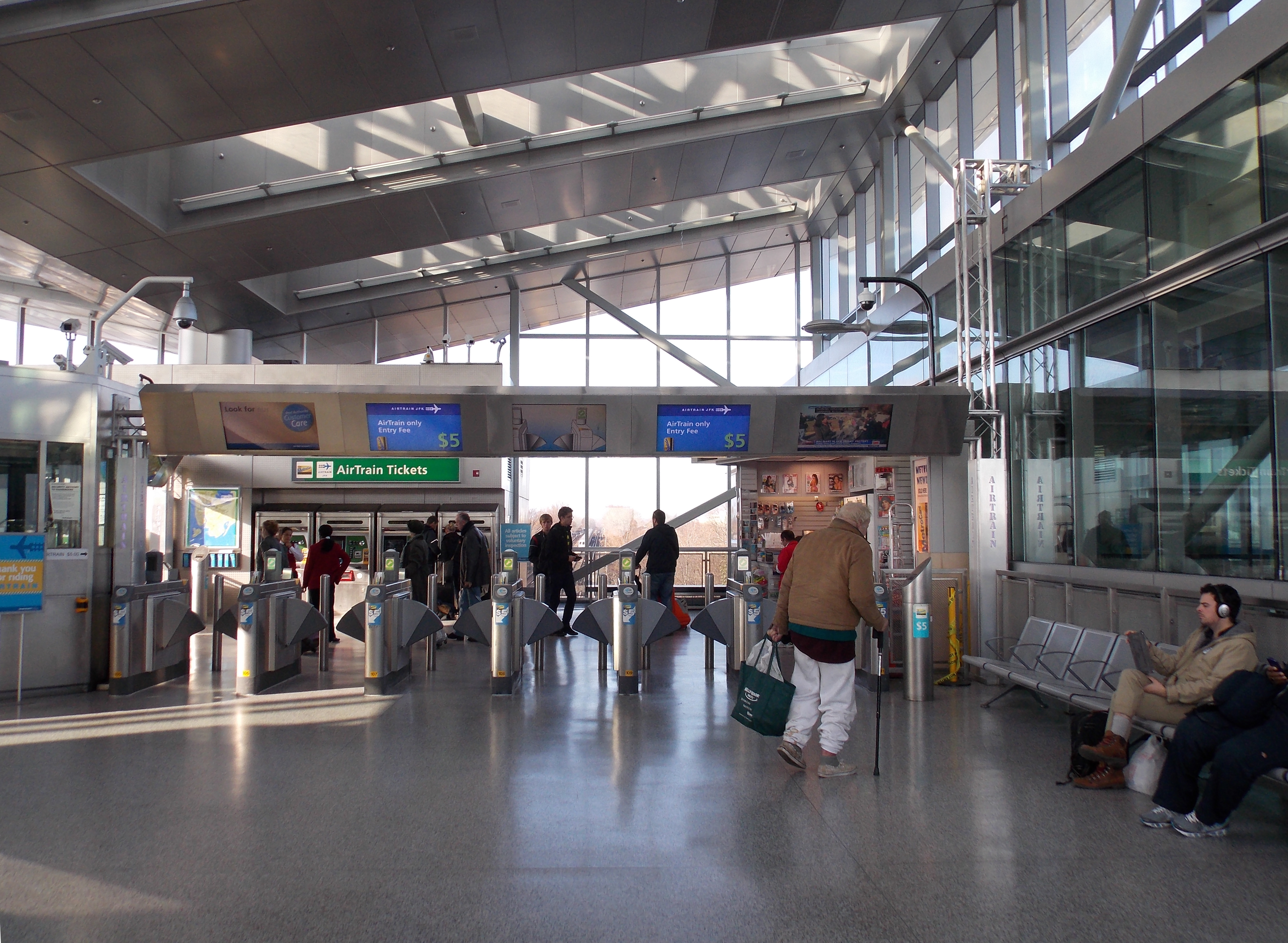 Faregates at Howard Beach Airtrain Station the A Line.